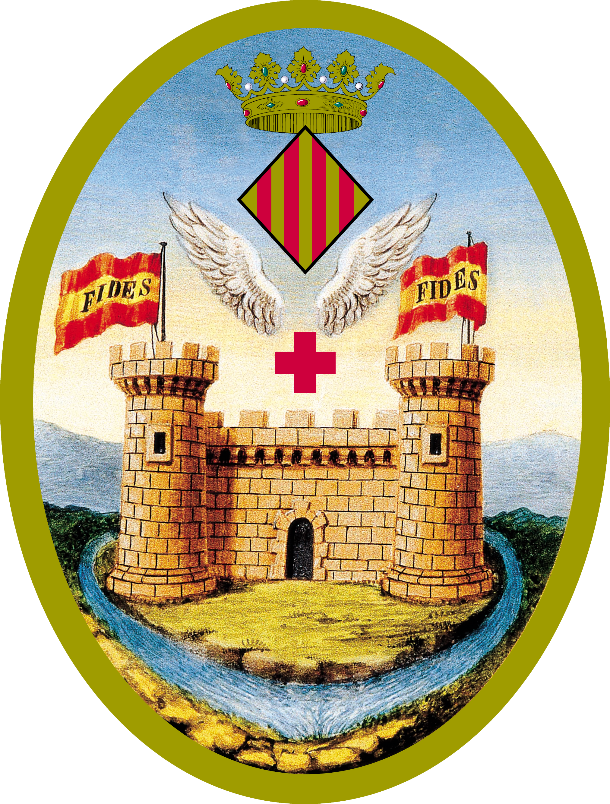 Coat of arms of Alcoi (Valencian Community, Spain)